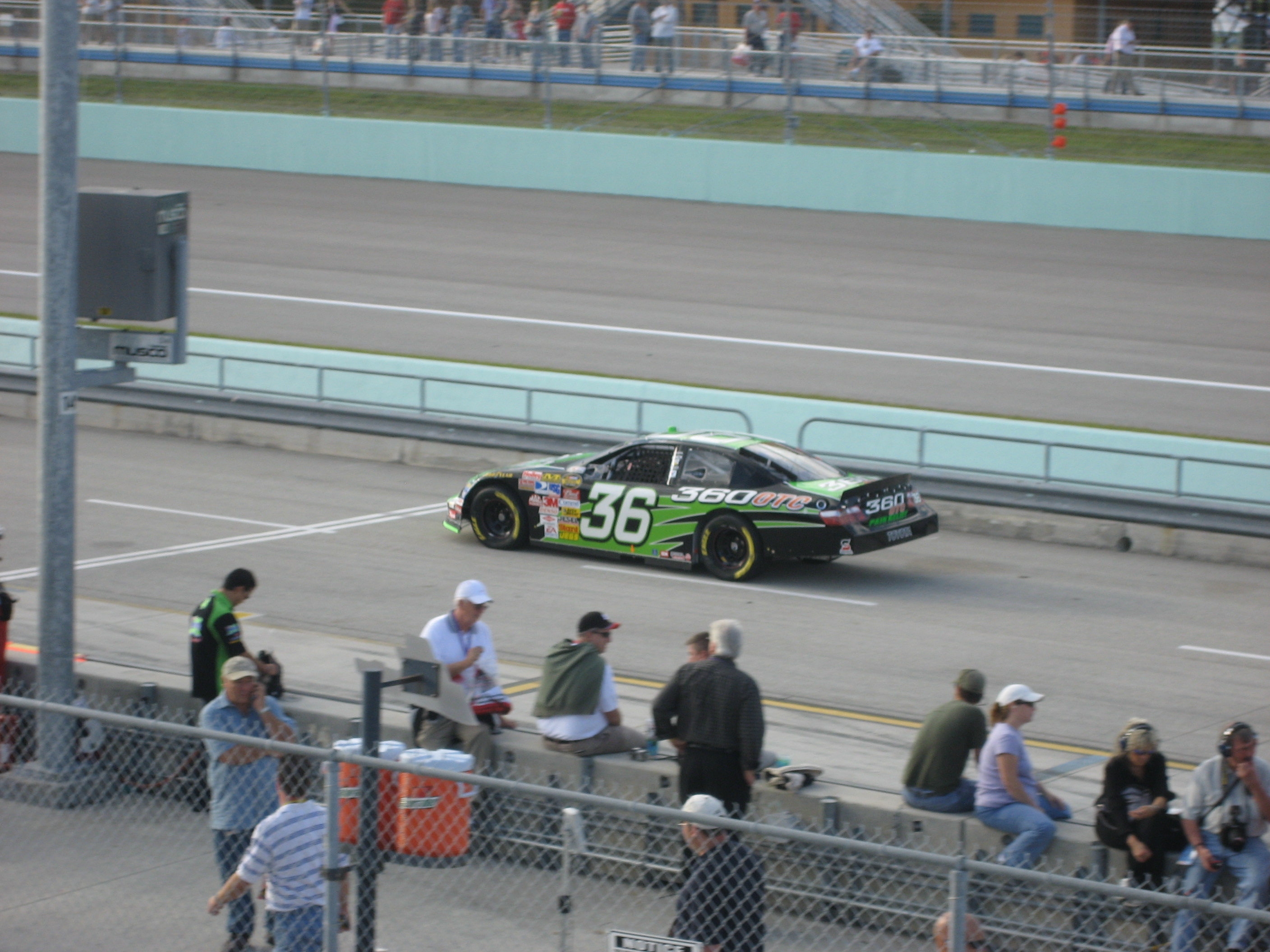 Johnny Benson practicing for the 2007 Ford 400 at the Homestead-Miami Speedway.